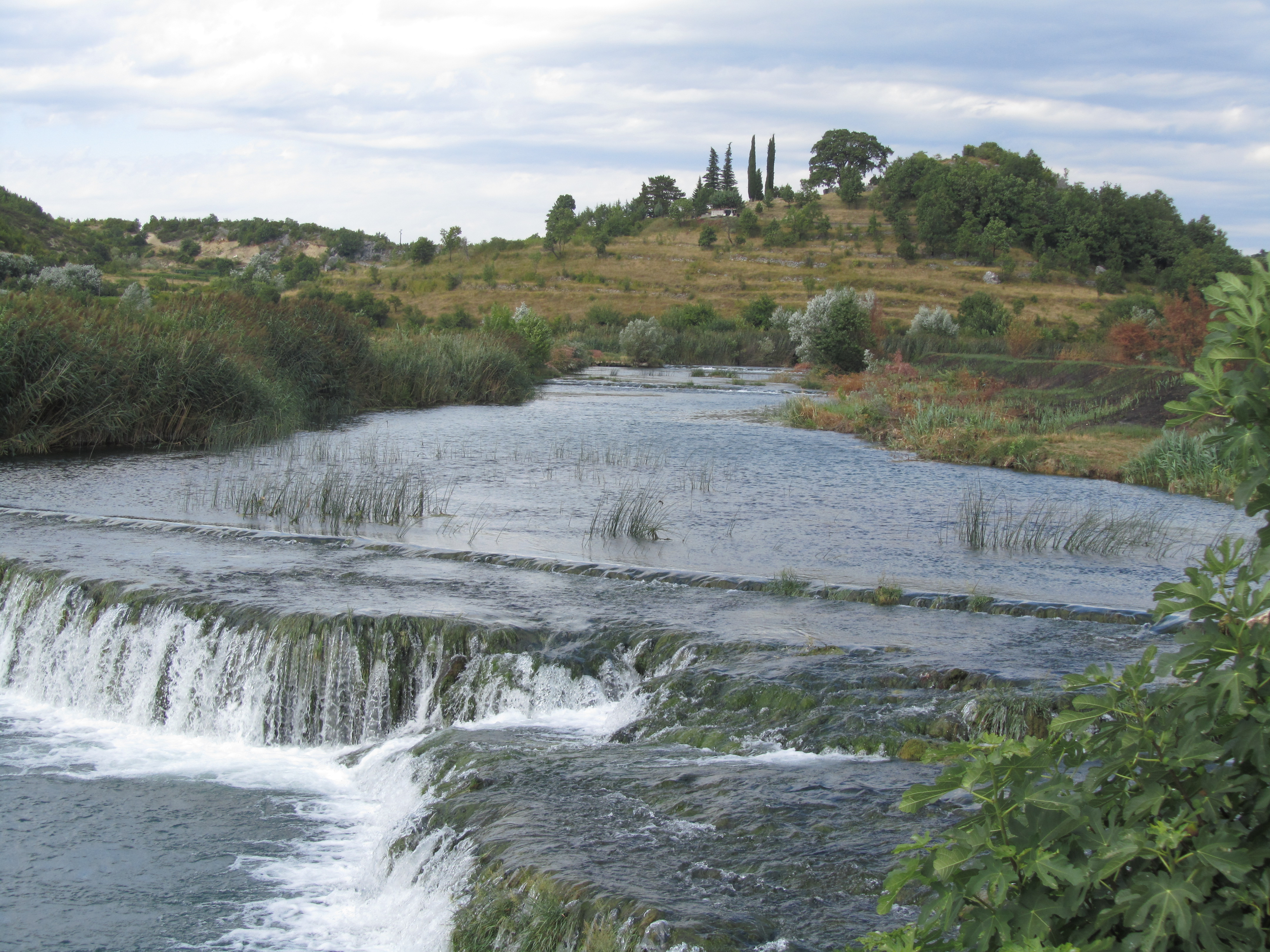 Trebižat River between Vitina (Ljubuški) & Klobuk Mountain, Bosnia & Herzegowina& Klobuk Mountain